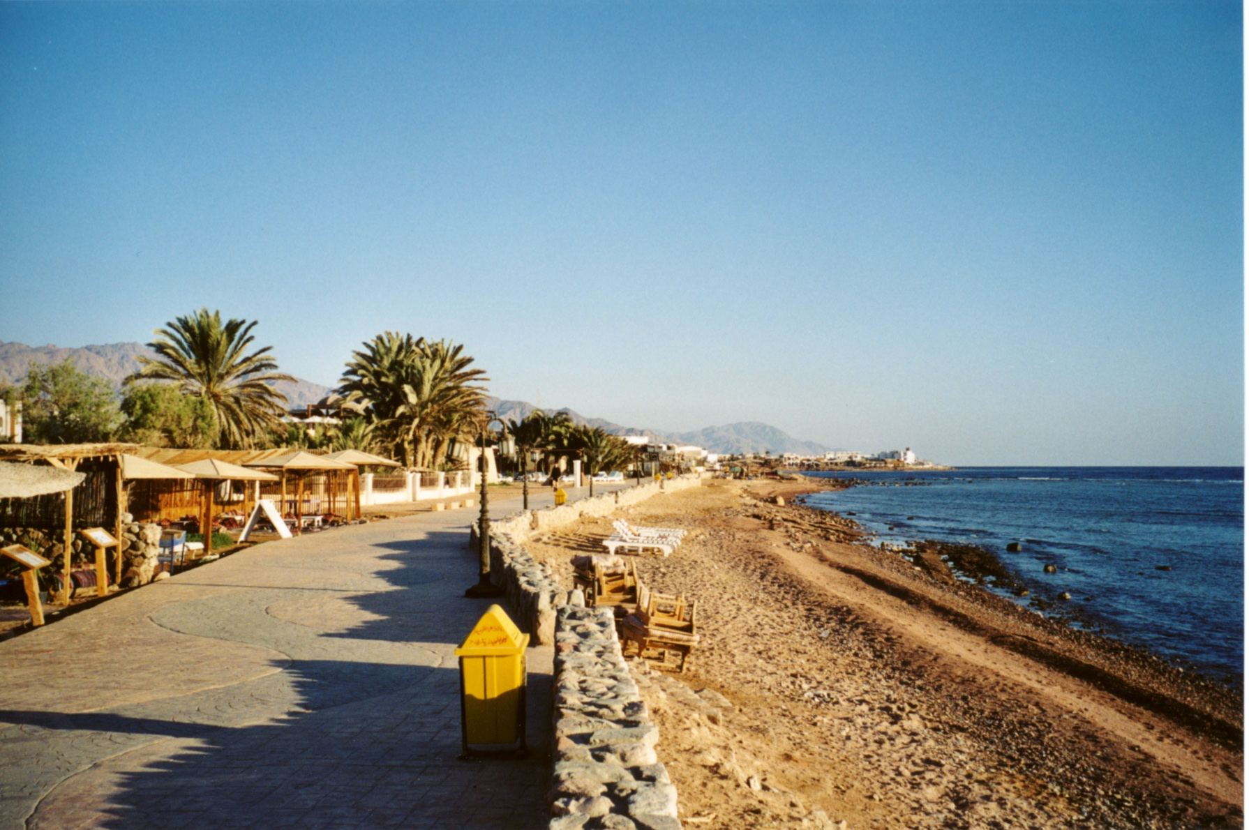 Description: A beach with promenade and restaurants in Dahab (Egypt) Date: December 2003 Author: Nowic Source: own photo, scanned